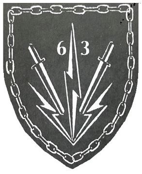 SADF 63 Mech emblem ver 1